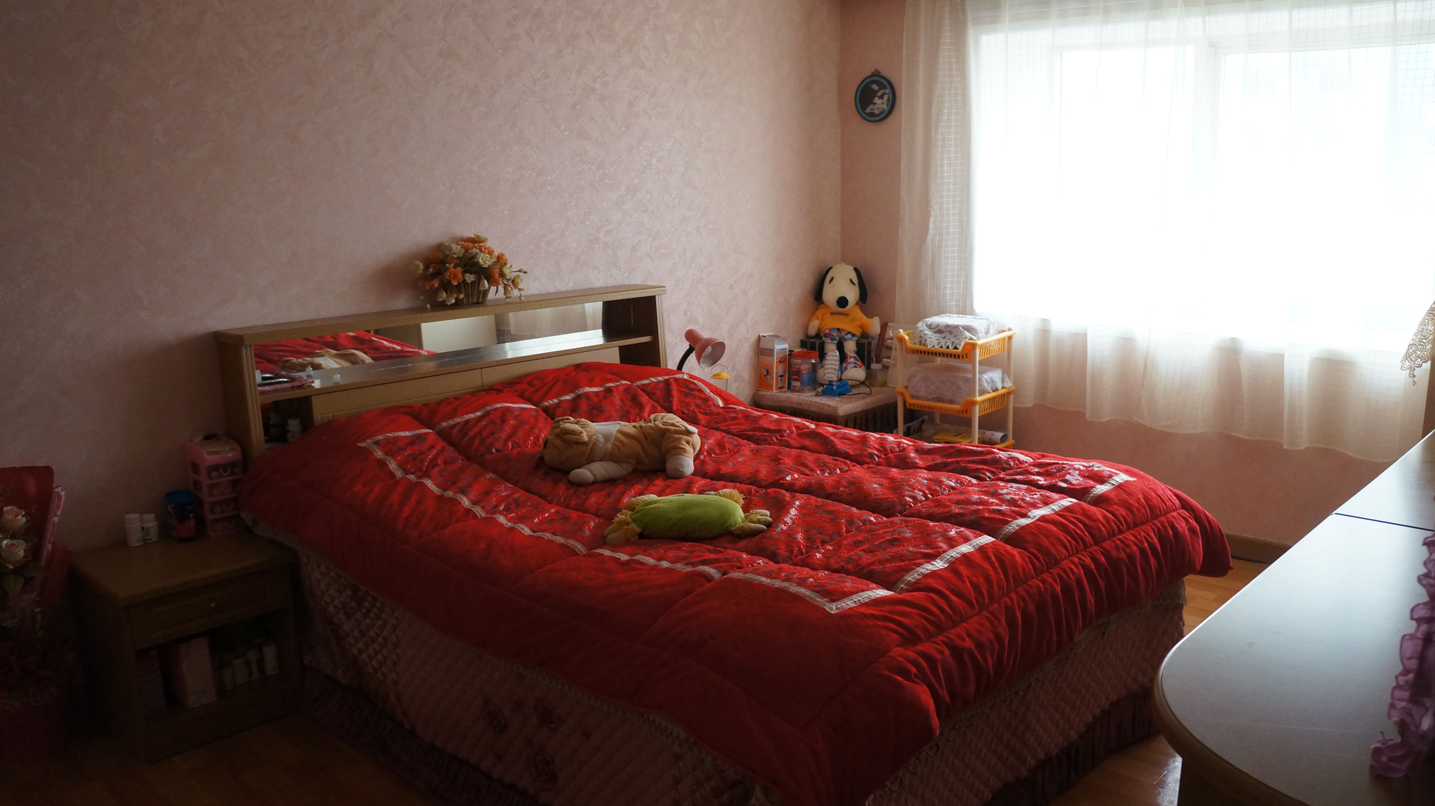 Kim Il Sung University professorial housing complex